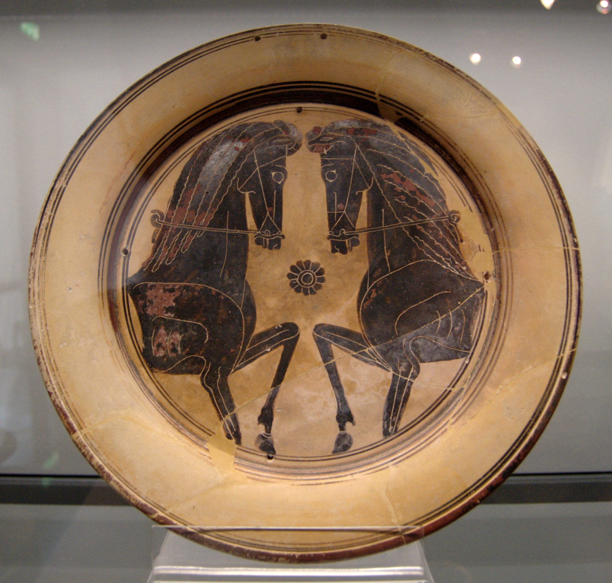 Horses heads. Corinthian black-figure plate, 600–575 BC.